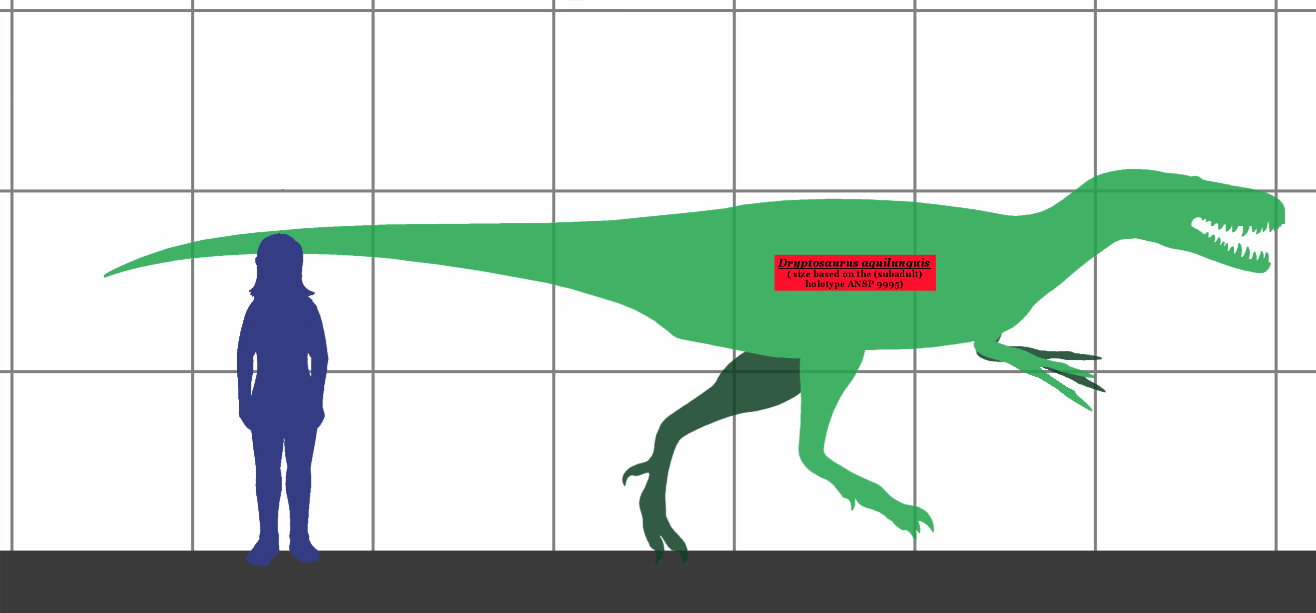 Estimated size of Dryptosaurus (Dinosauria, Saurichia, Theropoda, Coelurosauria, Tyrannosauroidea, Dryptosauridae) and a human.